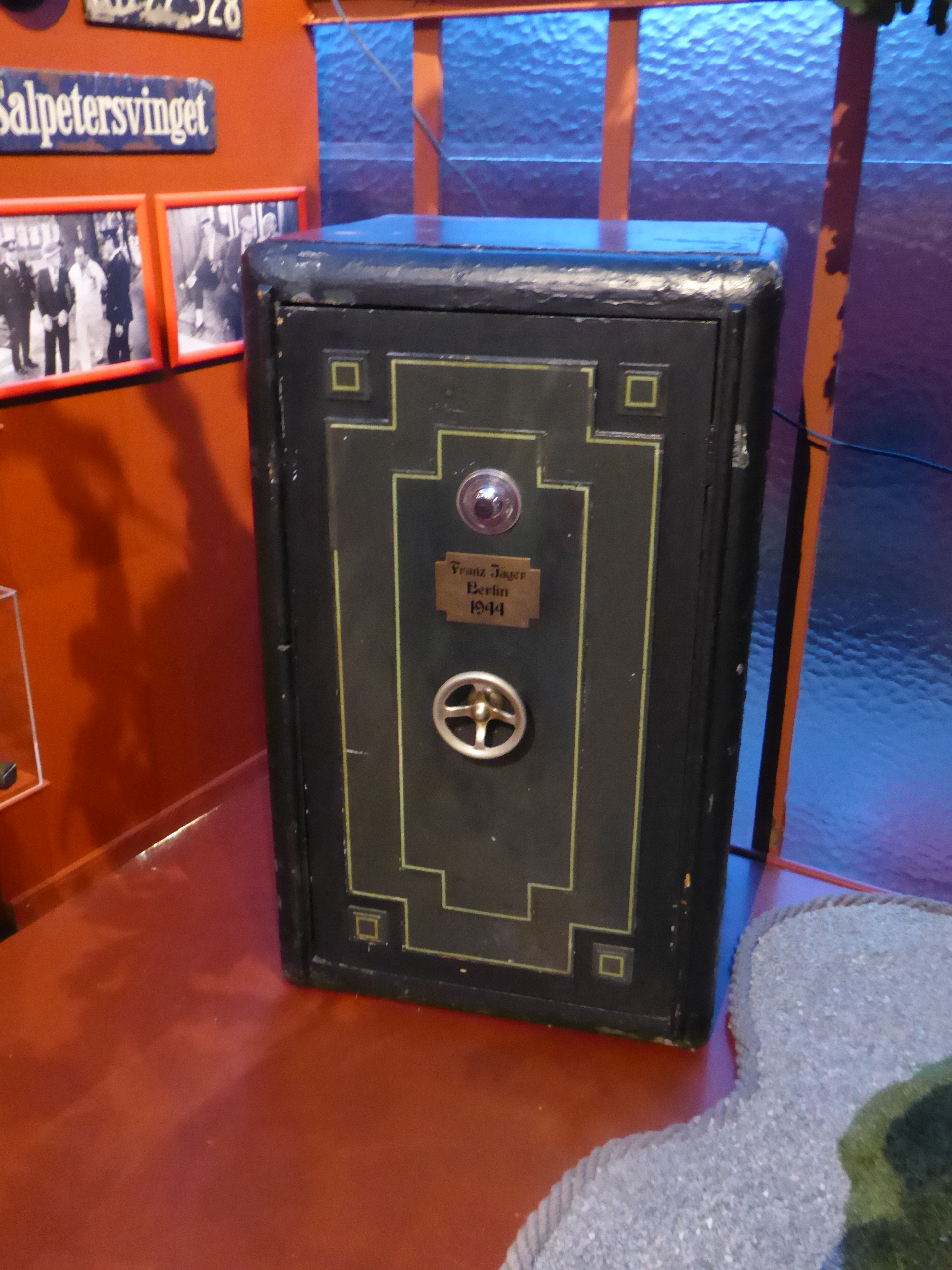 The exhibition Olsen-banden vender hjem at Nordisk Film in Copenhagen with props used in the Olsen-banden films. Safe made by the fictional company Franz Jäger.